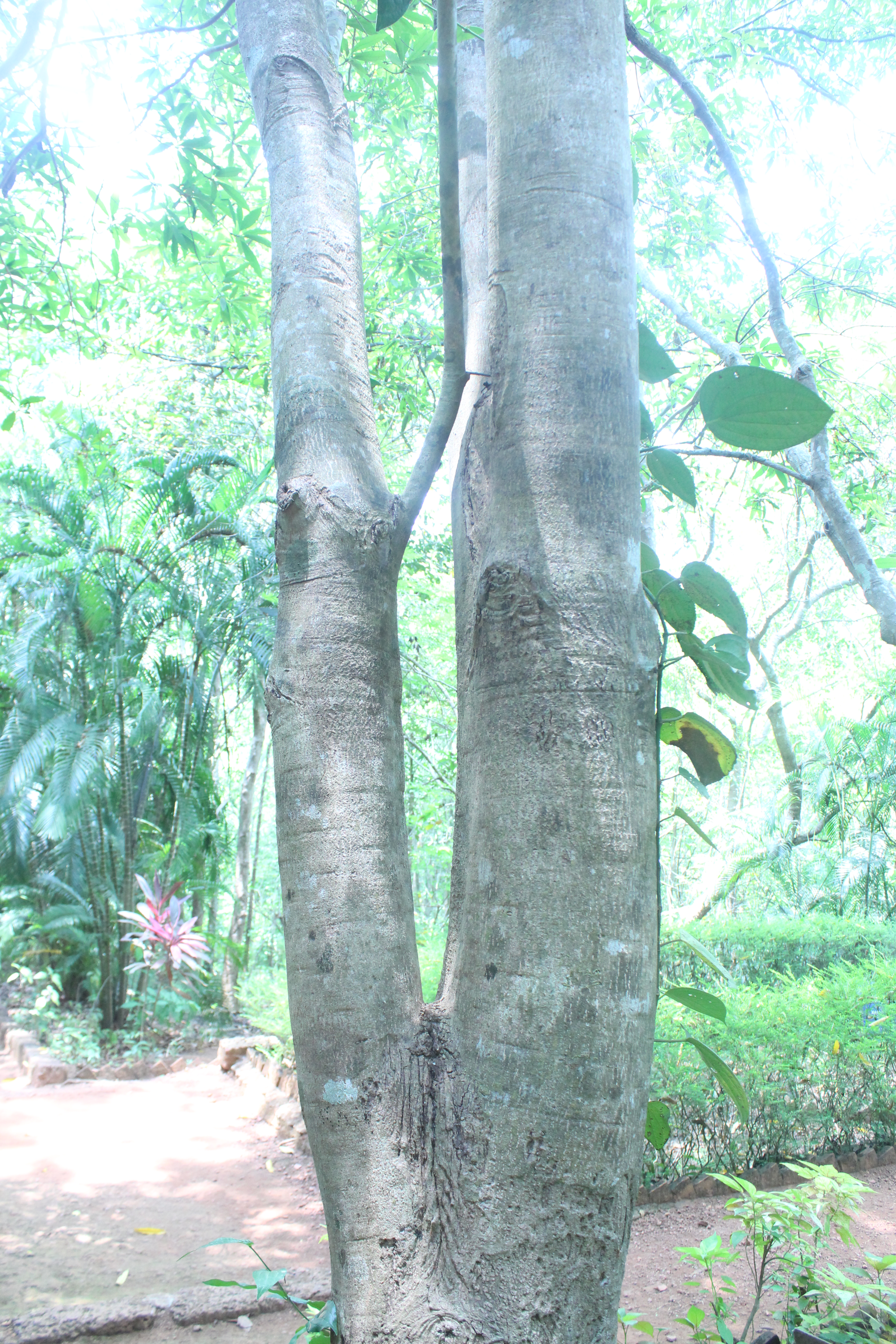 MADHUCA LONGLFOlIA